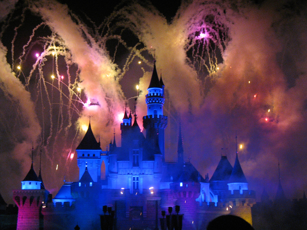 Fireworks over Sleeping Beauty Castle